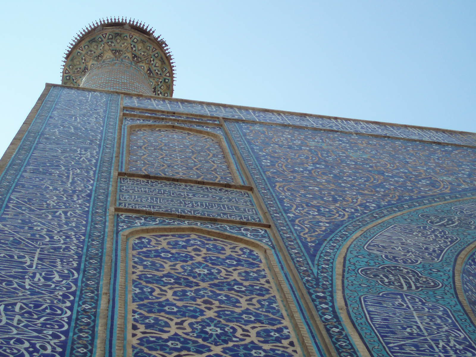 Jemeh mosque, Zanjan